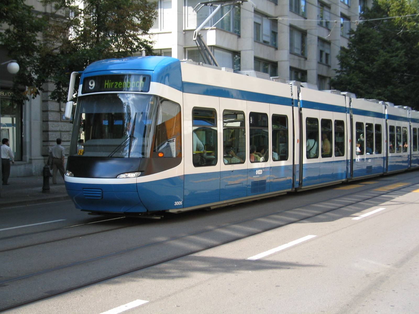 Cobra (tram) in Zürich, Switzerland